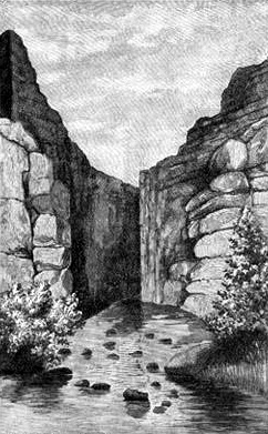 Taken from public domain Jewish Encyclopedia